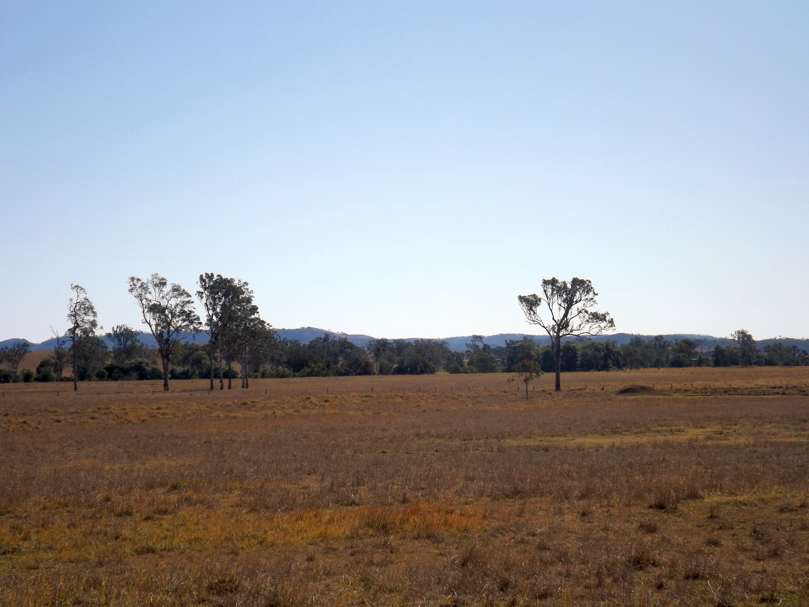 Photo of paddocks along Kilcoy Murgon Road at Sheep Station Creek, Somerset Region, Queensland, Australia.